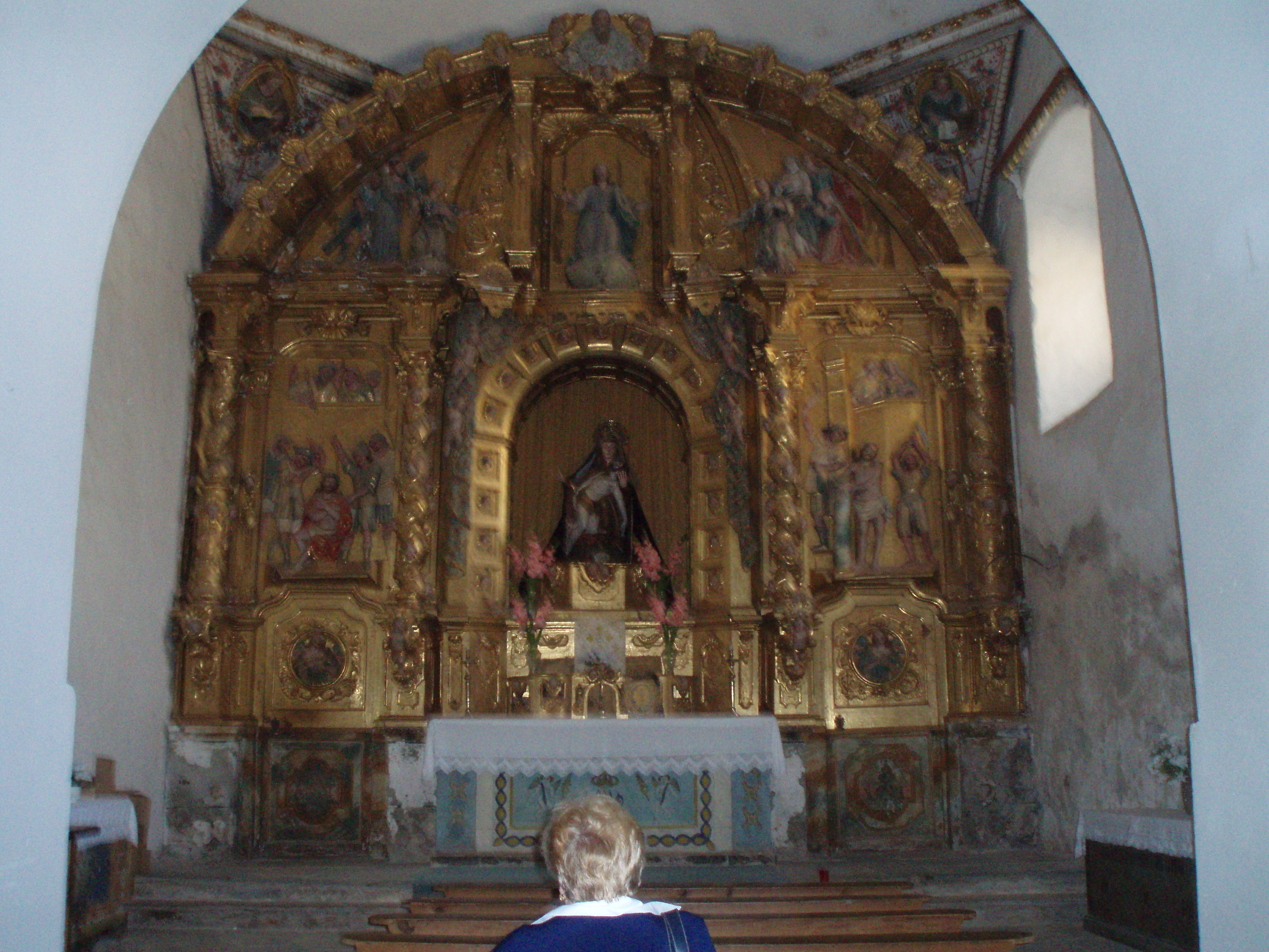 Church of Santiago of Villafranca del Bierzo, in Leon. (Spain).